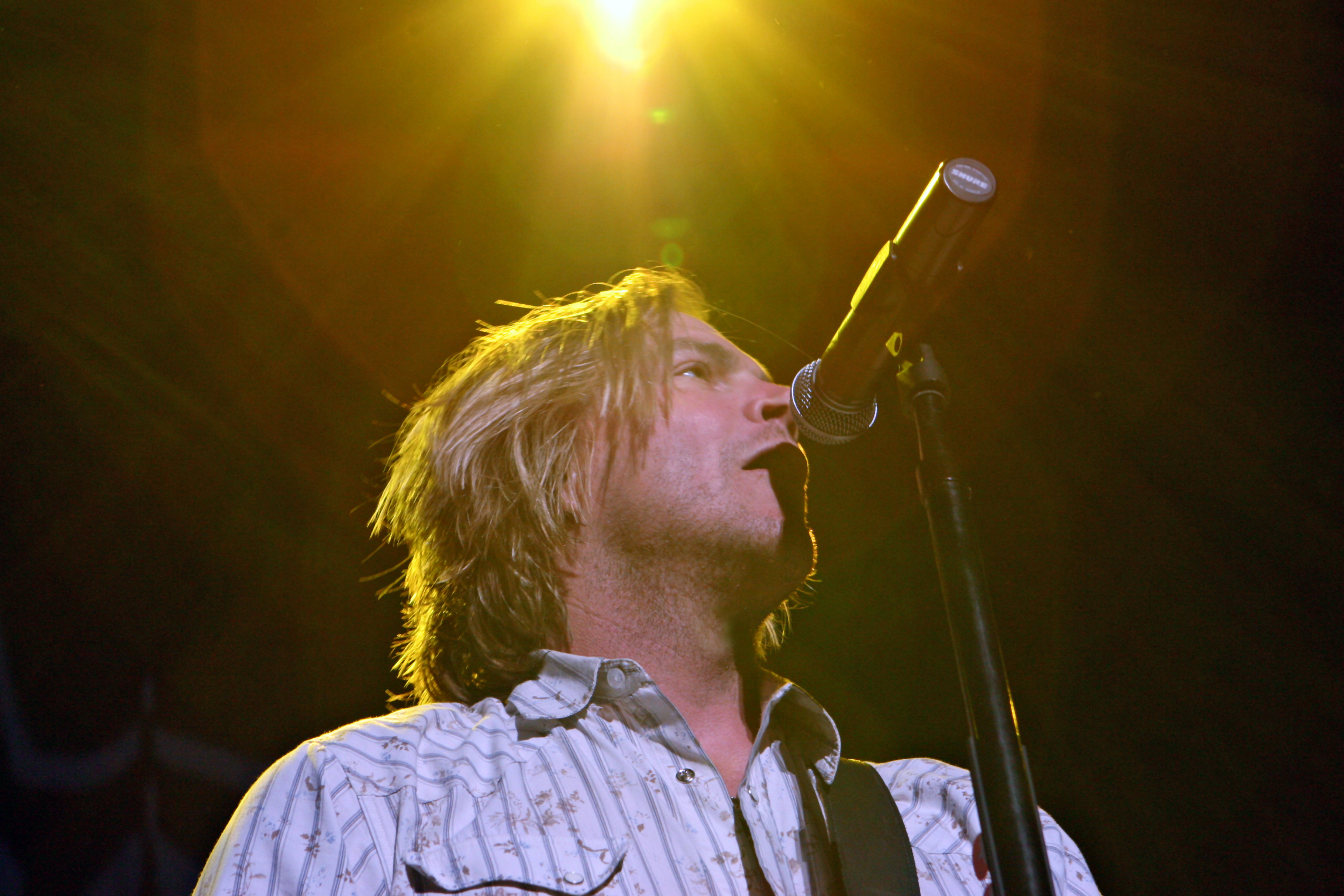 CMA winner Jack Ingram plays live in Jacksonville, Florida.